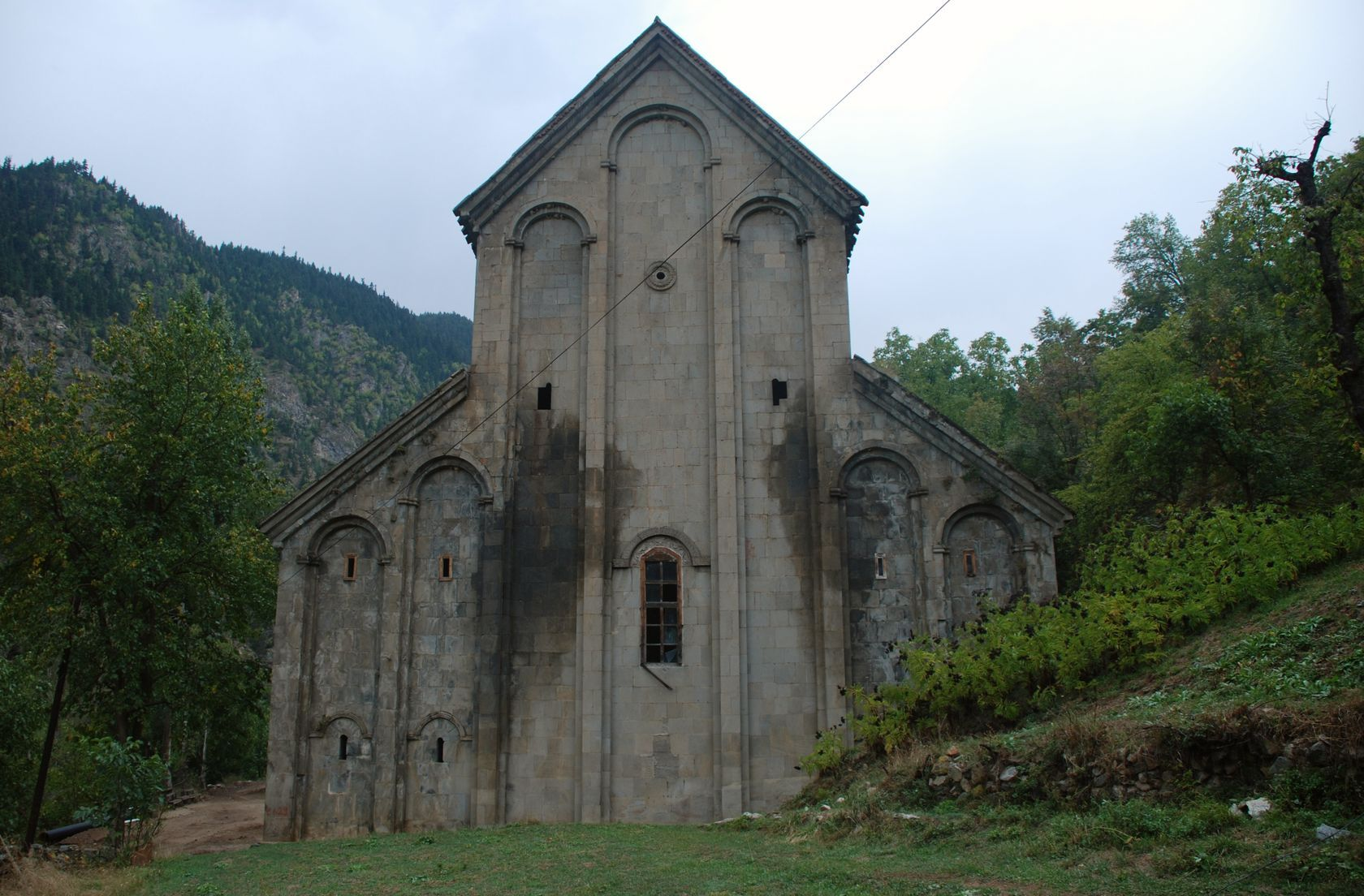 Barhal (Altiparmak), near Yusufeli, Artvin province, Georgian church, east side